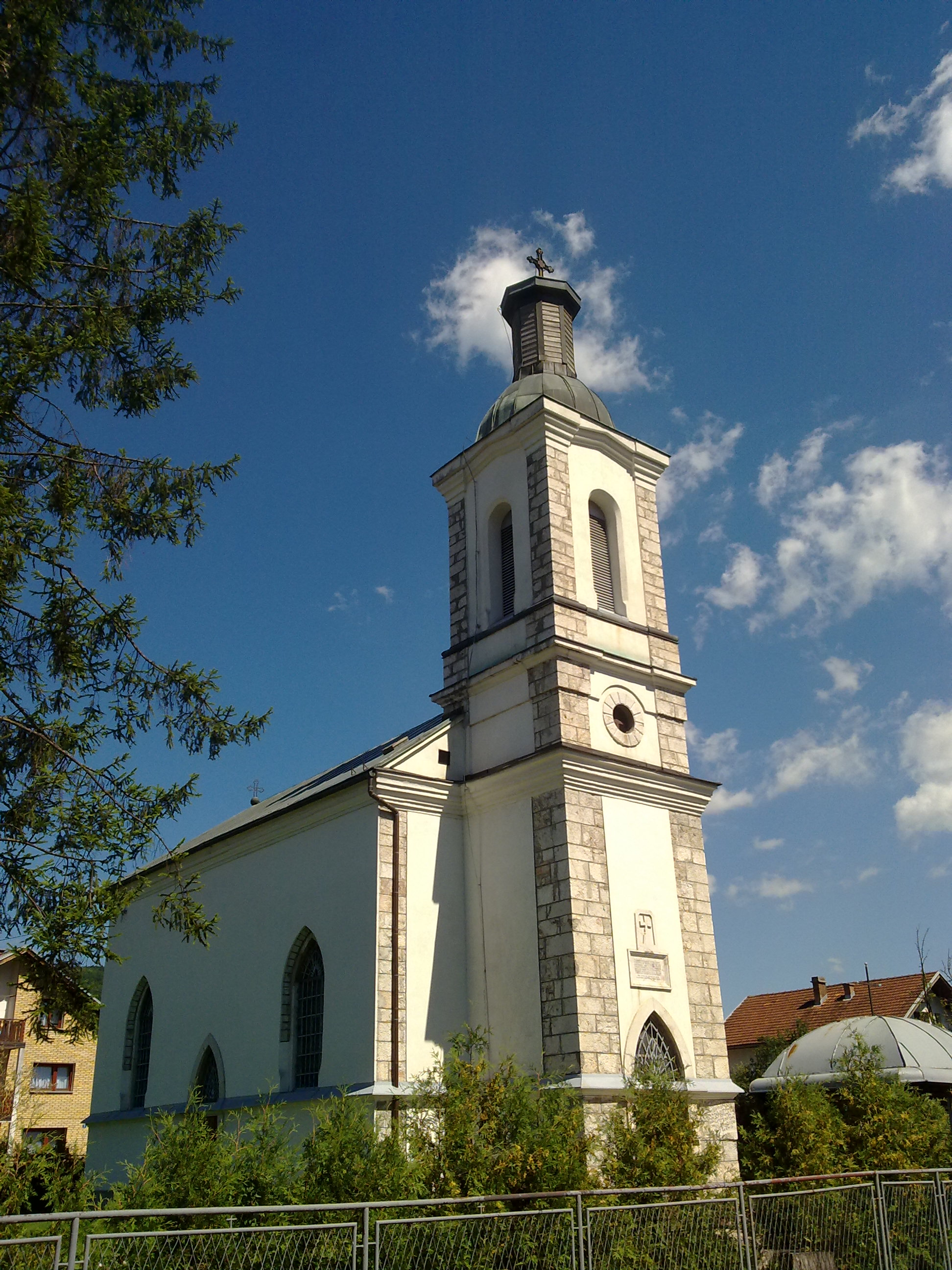 Church of Holy Trinity, Rogatica, founded in 1886